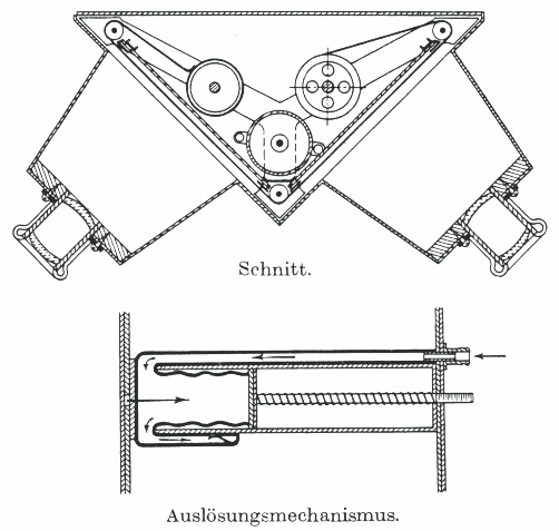 Sectional view and pneumatic system of Julius Neubronner's patented pigeon camera with two lenses.